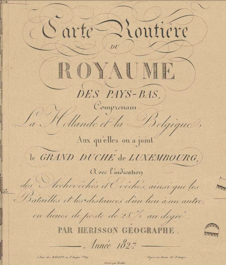 Title: 'Carte routière du Royaume des Pays-Bas, comprenant la Hollande et la Belgique, aux quelles on a joint le grand Duché de Luxembourg : avec l'indication des archevêchés et evêcheés, ainsi que les batailles et les distances d'un lieu à un autre en lieues de poste de 28½ au degré.'